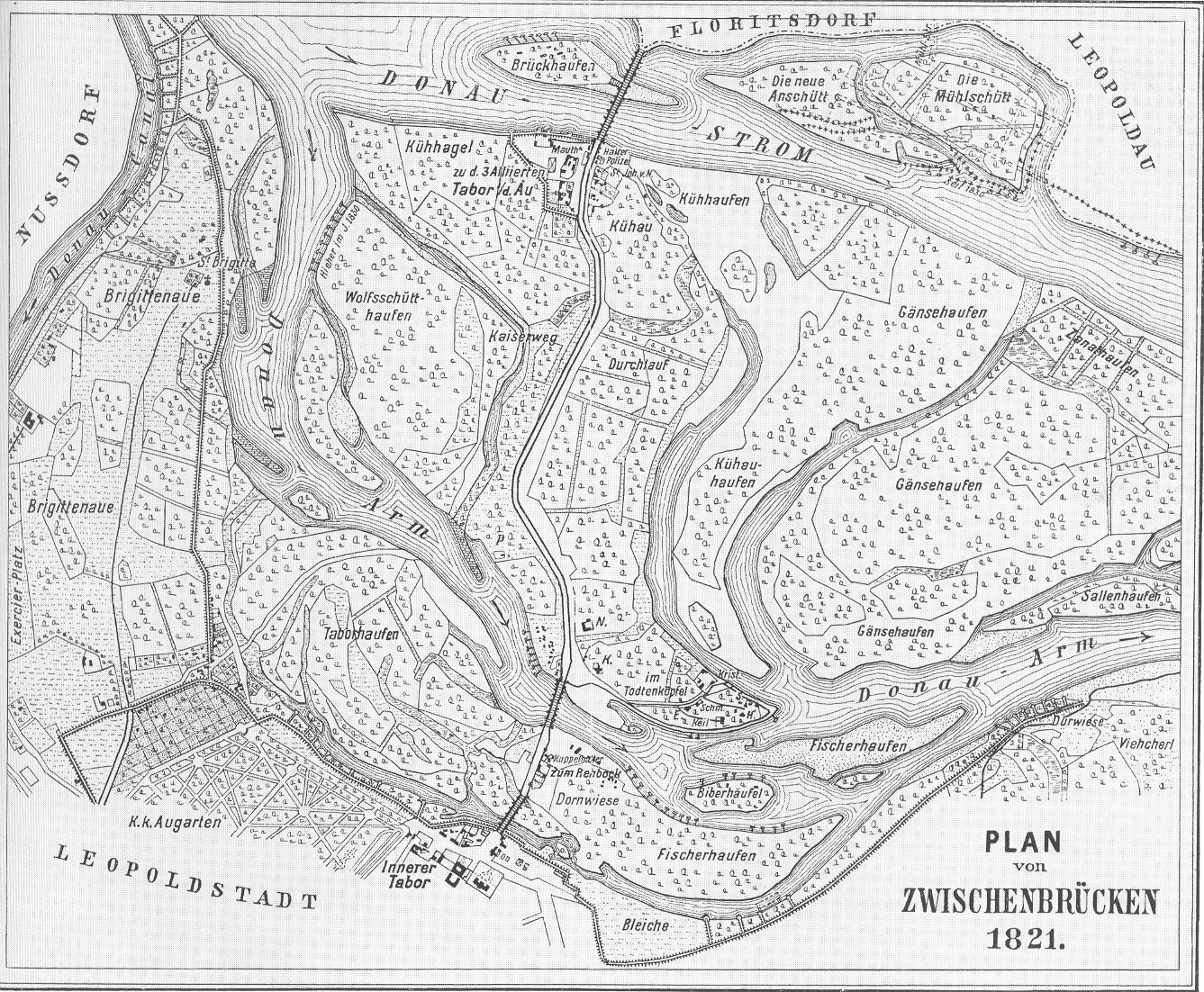 Map of Zwischenbrücken 1821